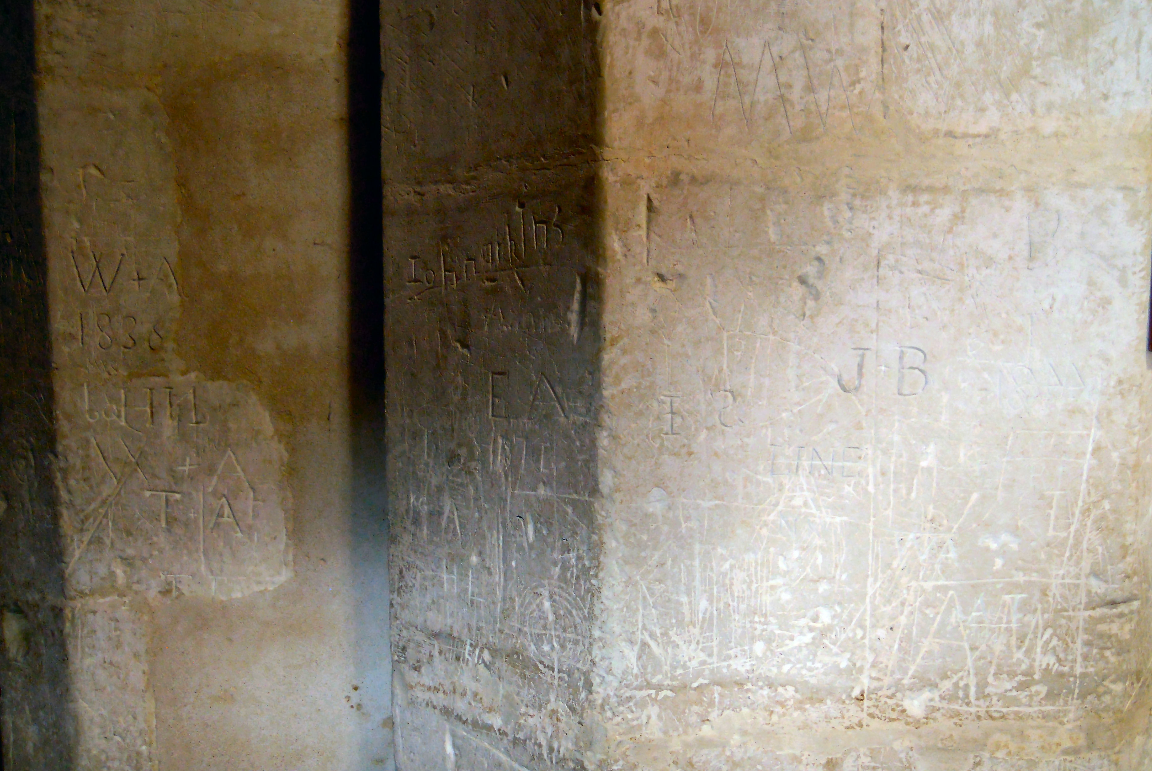 Graffiti from various eras in the Church of St Mary the Virgin in Gamlingay in Cambridgeshire